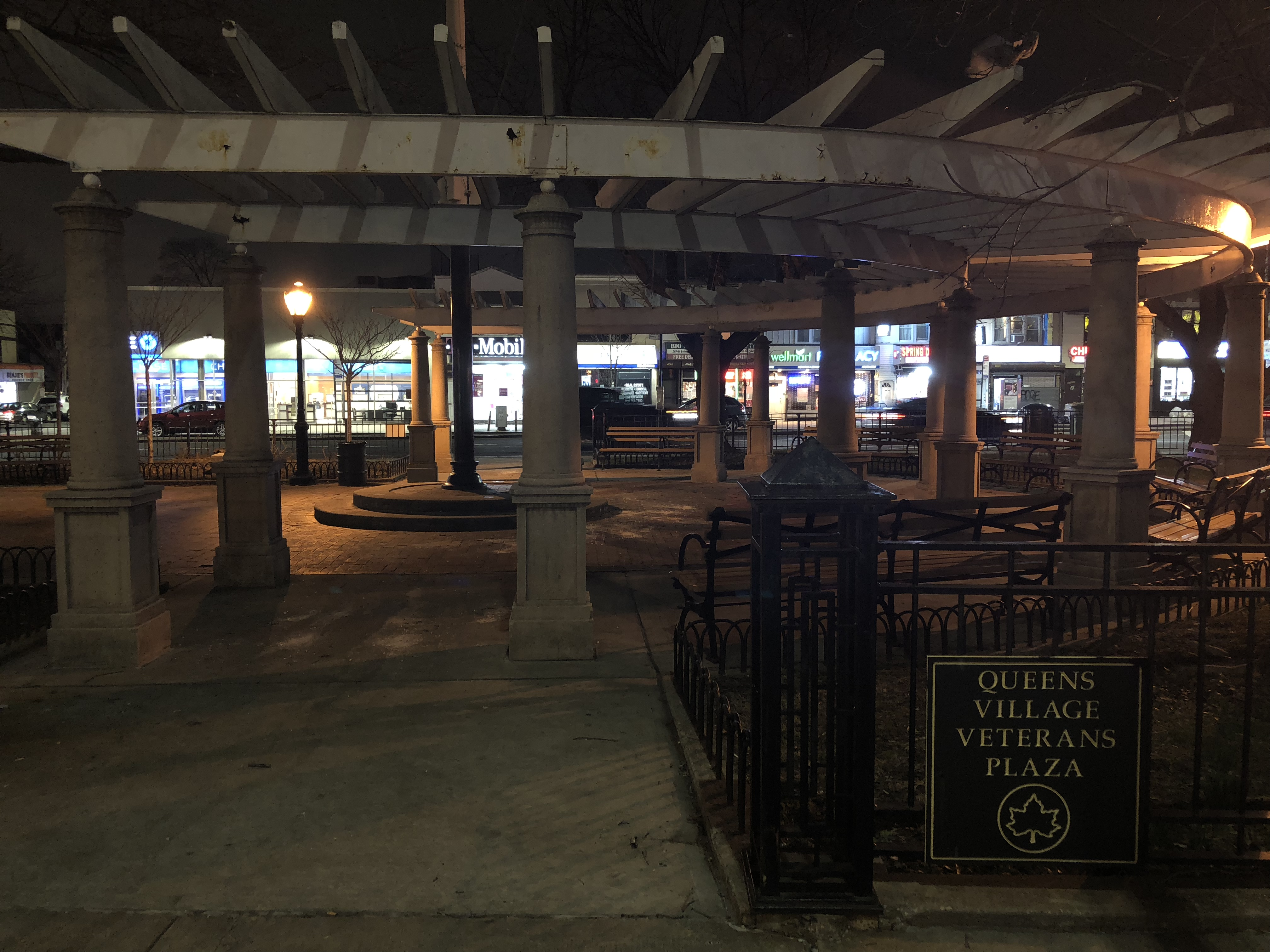 This shows a sitting area in Queens Village on Jamaica Ave and Springfield Blvd. It is located near the Queens Village LIRR station.